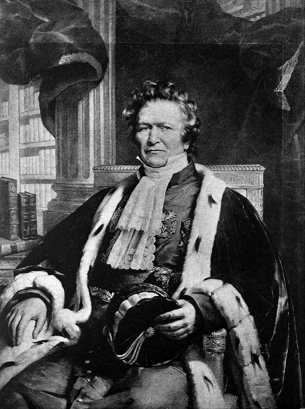 Jacques Thenard General Collections Keywords: Jacques Thenard